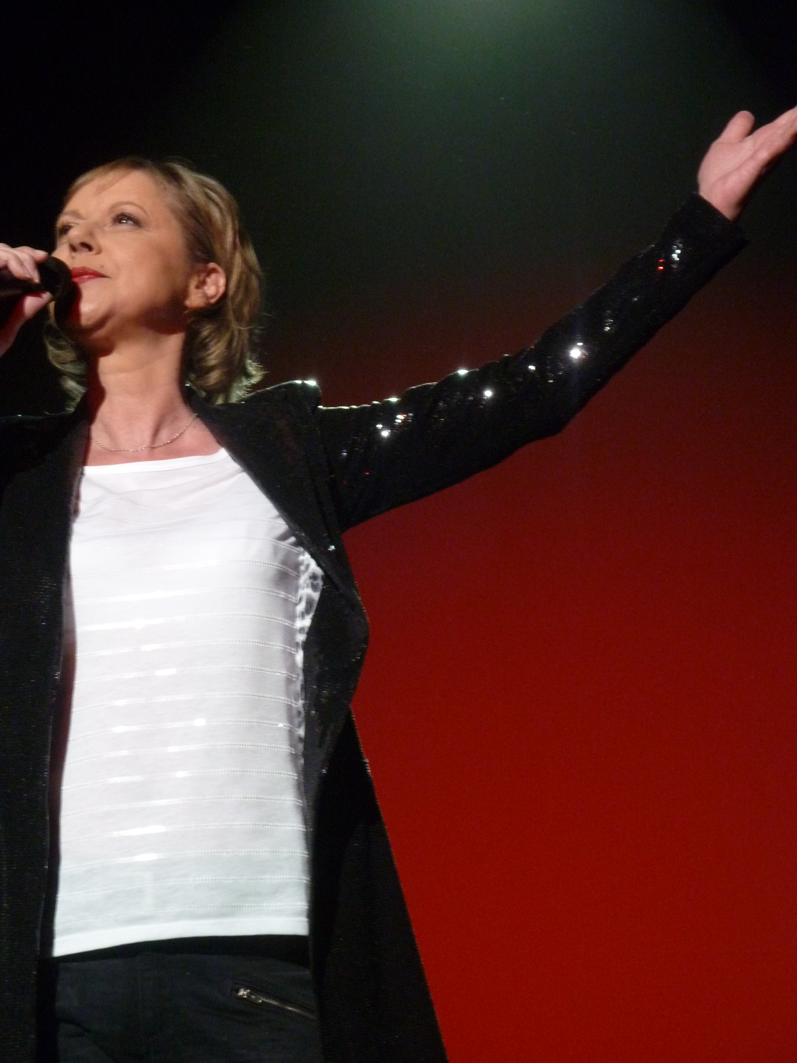 Dorothée live at l'Olympia, singing "L'Olympia"